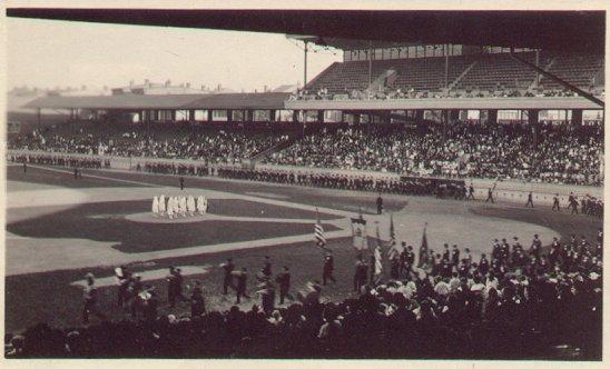 A picture of the Cincinnati Reds before a game at Redland Field (circa 1920). 14:35, 31 August 2006 . . Randall311 . . 548×332 (46,130 bytes) ( PD-US )